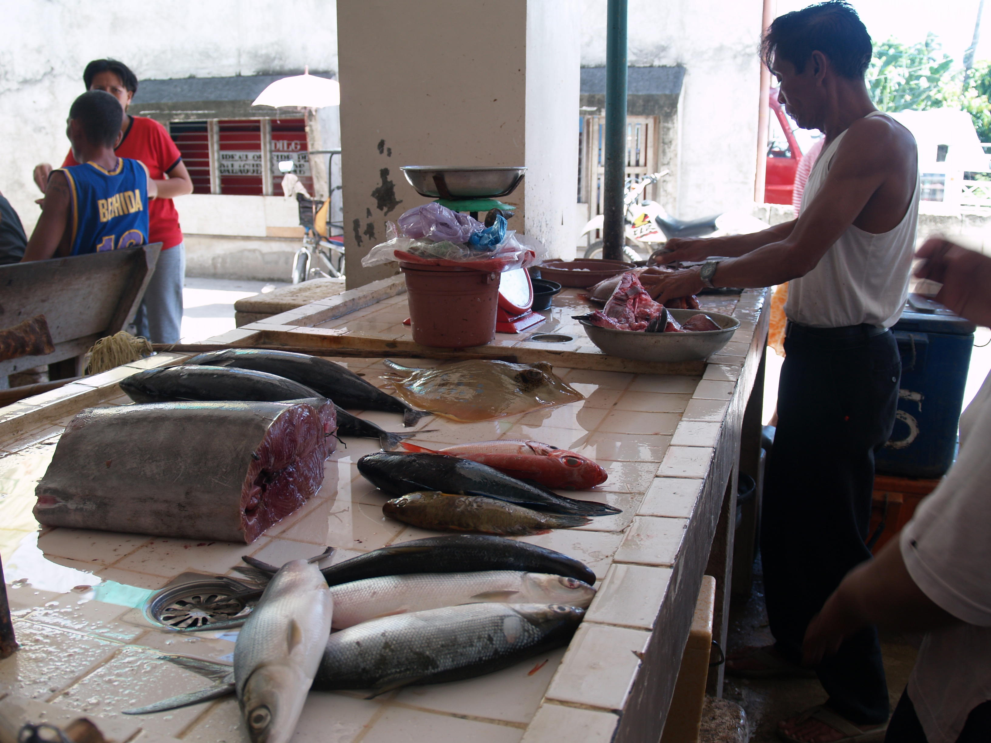 Some common food fishes being sold at a palengke in Dalaguete, Cebu. Some Chanos chanos, one of the most popular food fish in the country can be seen in the foreground. A chunk of Makaira indica, black marlin sits behind them. Beside it lies several more fish, and behind it is several scombrids. In the far back is a stingray, Dasyatis kuhlii that is also occasionally found in Philippine public markets.